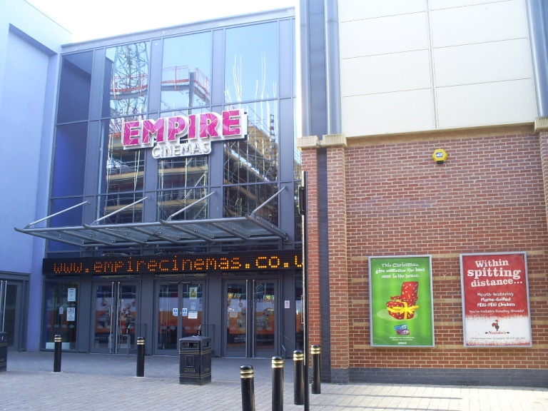 Empire Cinemas, at Sunniside Leisure, Sunderland.